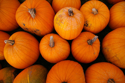 Pumpkins